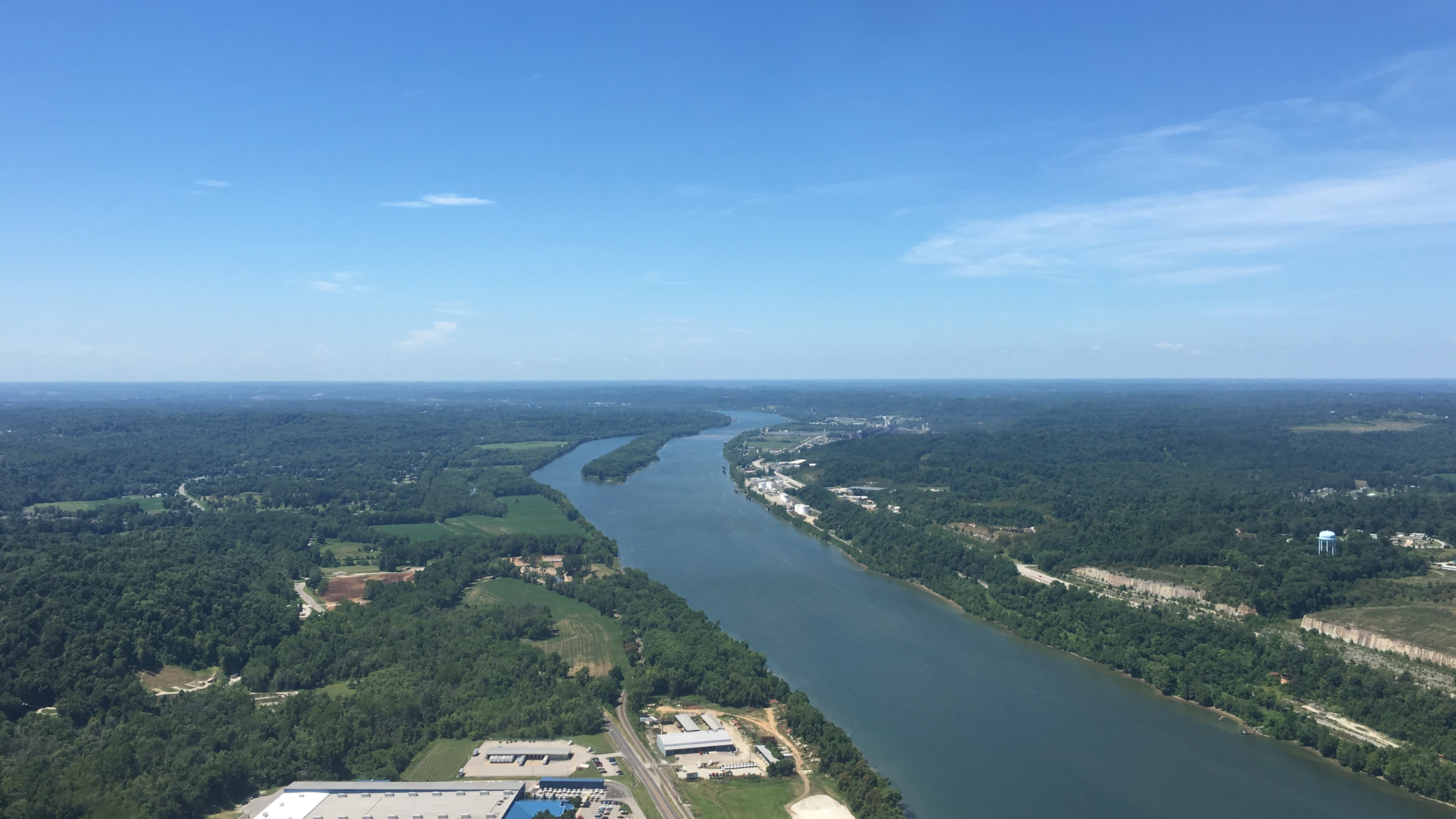 Aerial view looking south toward Muskinghum Island on the Ohio River near Marietta, Ohio. July 14th, 2016.